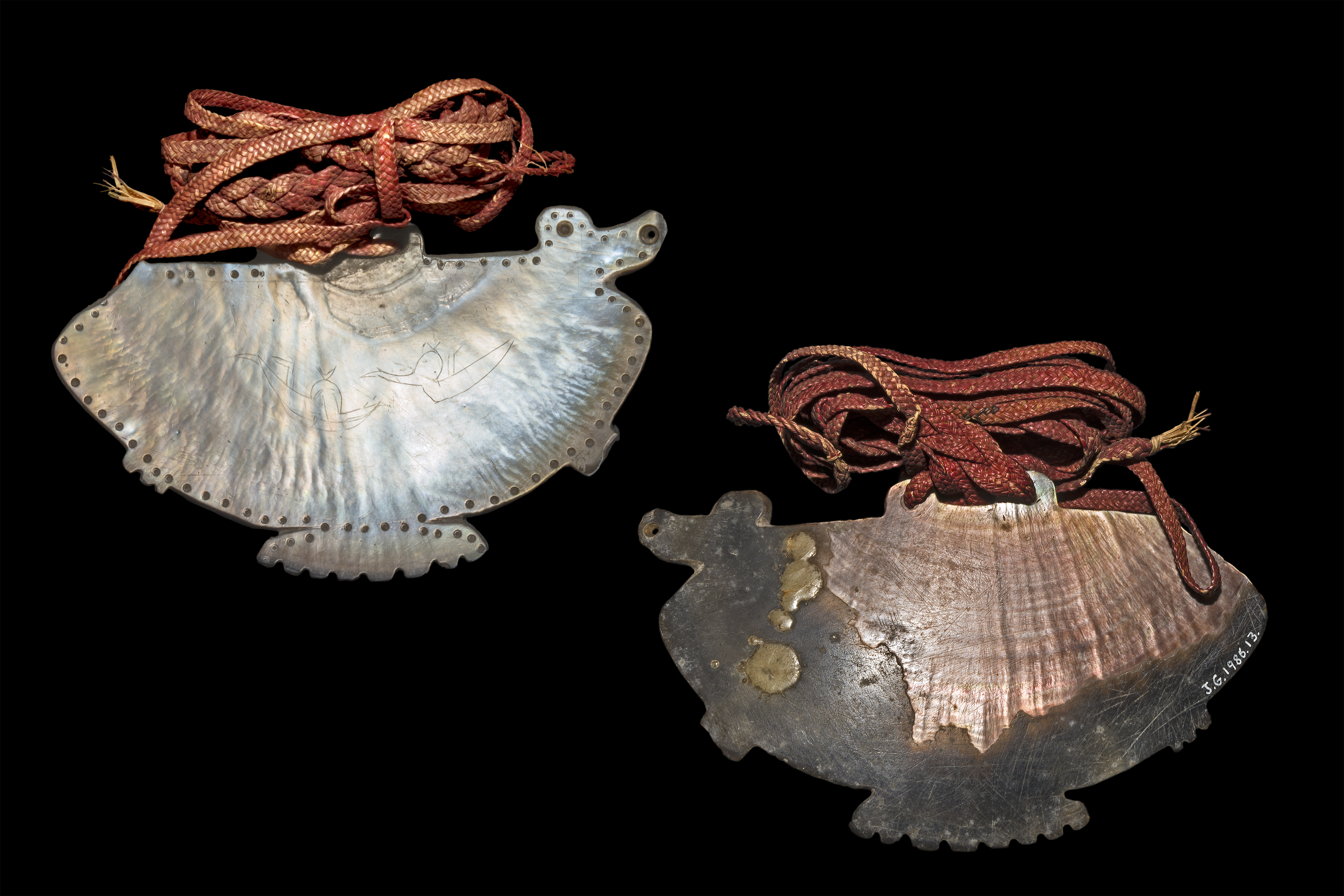 Mother of pearl pendant engraved. Two views of same object. Population : Solomon Islands Collector and collection: Gaston de Roquemaurel - The second travel of Dumont D'Urville (1837 - 1840) Date of collection: 1838 Materials: Vegetable fibers, Nacre Size : 9,5 x12 x2,5 cm